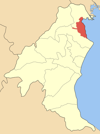 Locator map of Methonis municipality (Δήμος Μεθώνης) at Pierias perfecture, Greece.